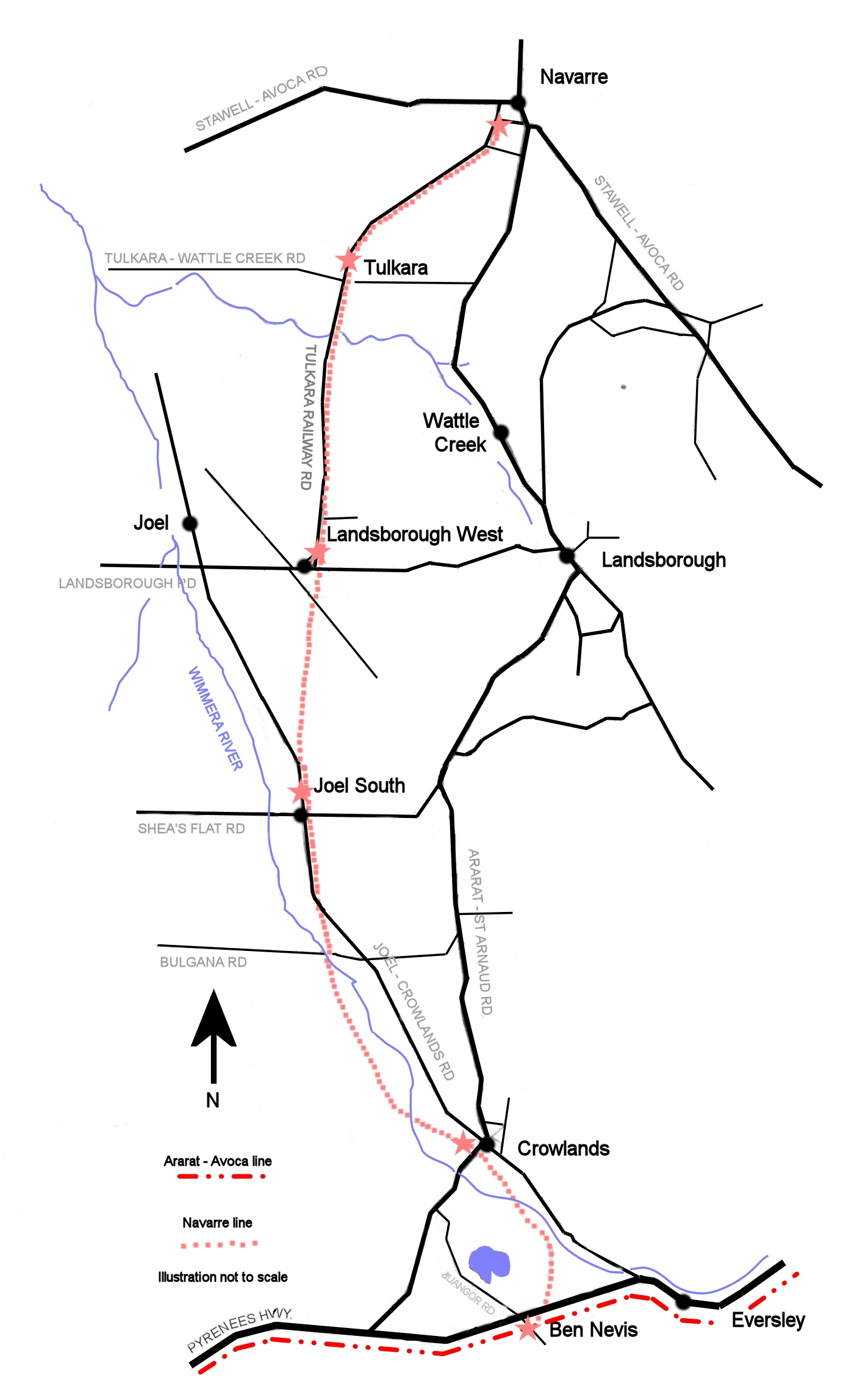 Indicates the approximate route the line once took from Ben Nevis to Navarre, Victoria